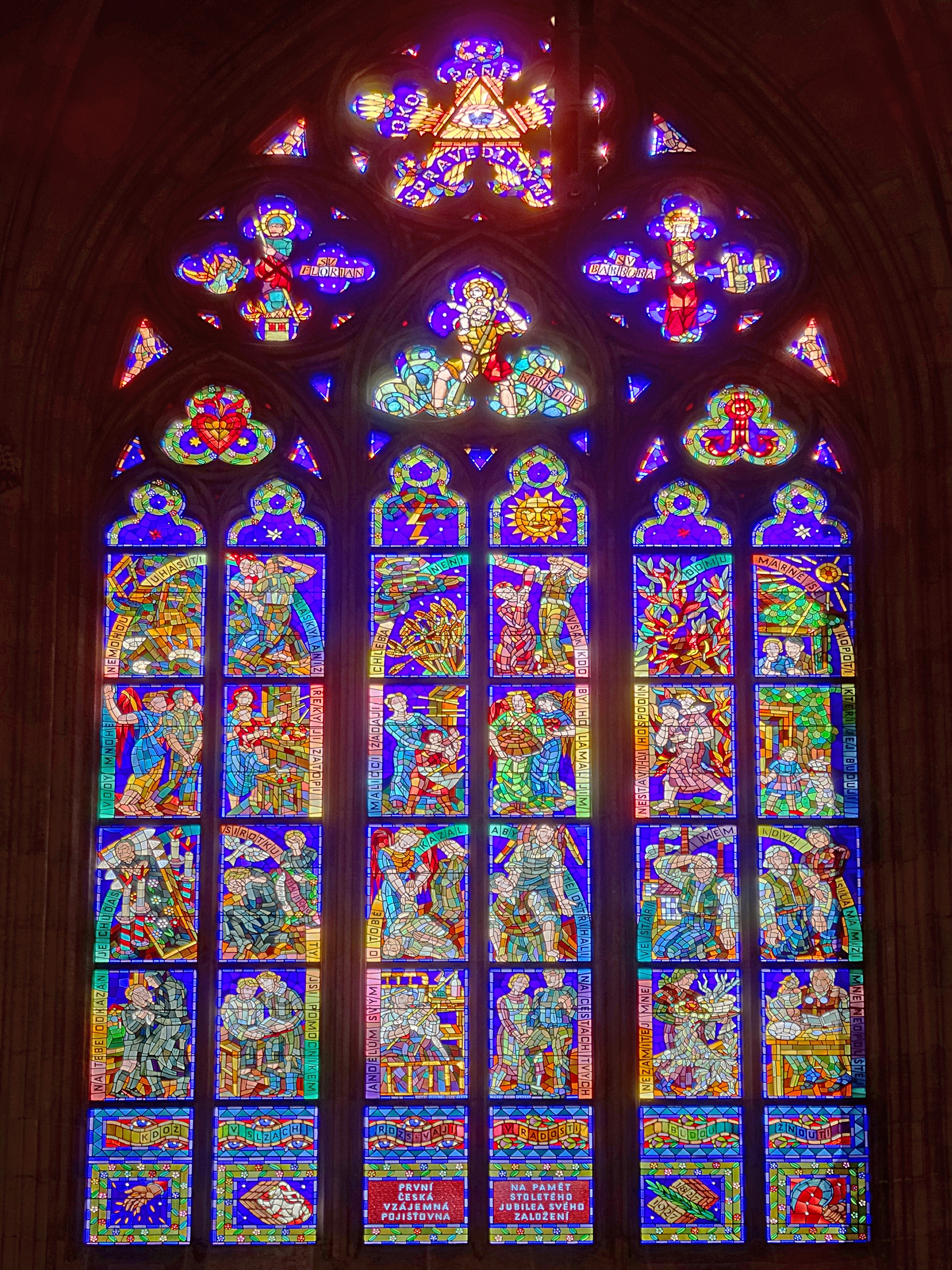 Stained glass window in the Thun chapel of the Prague St. Vitus Cathedral